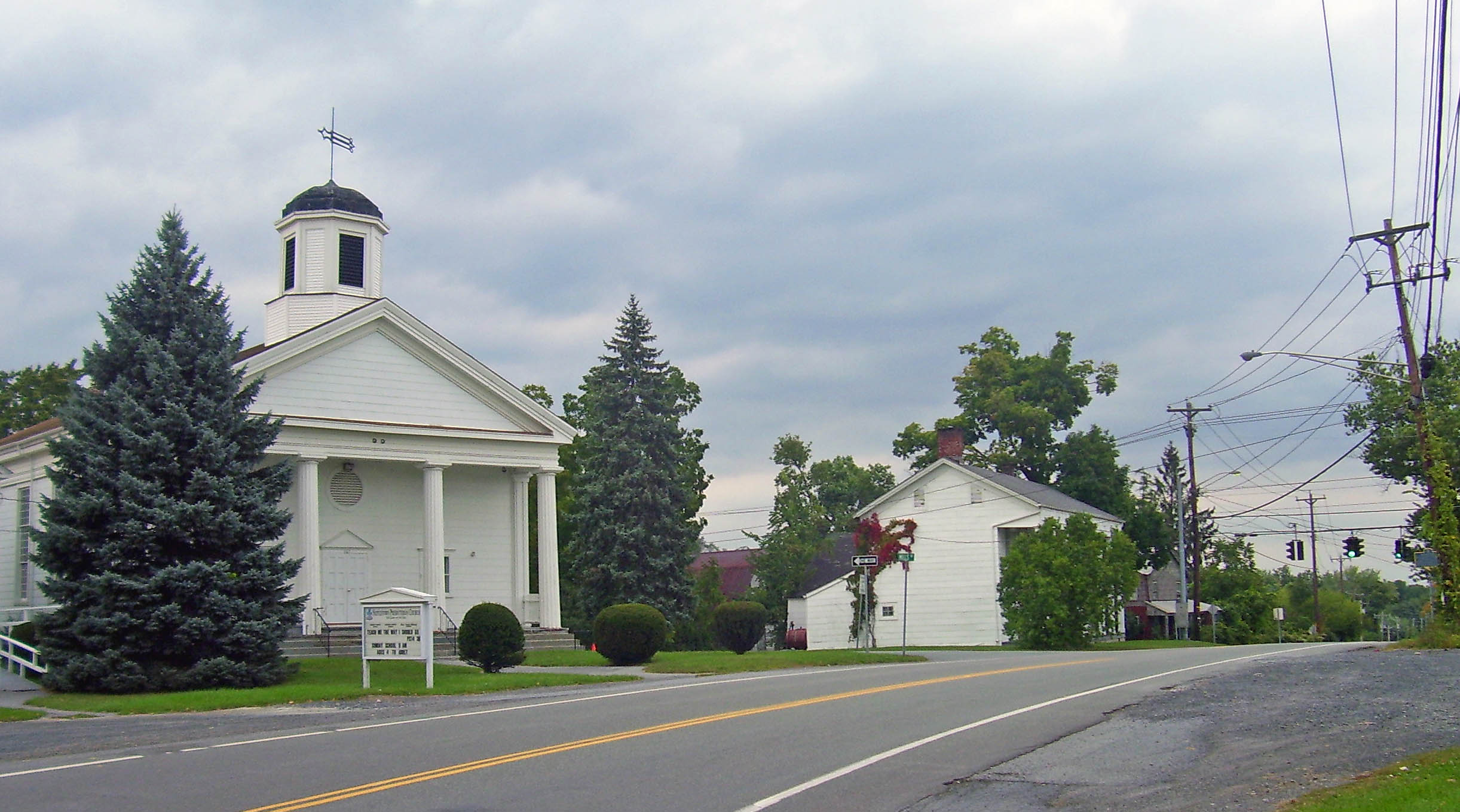 Historic church and other buildings in the center of mostly rural Scotchtown, NY, USA